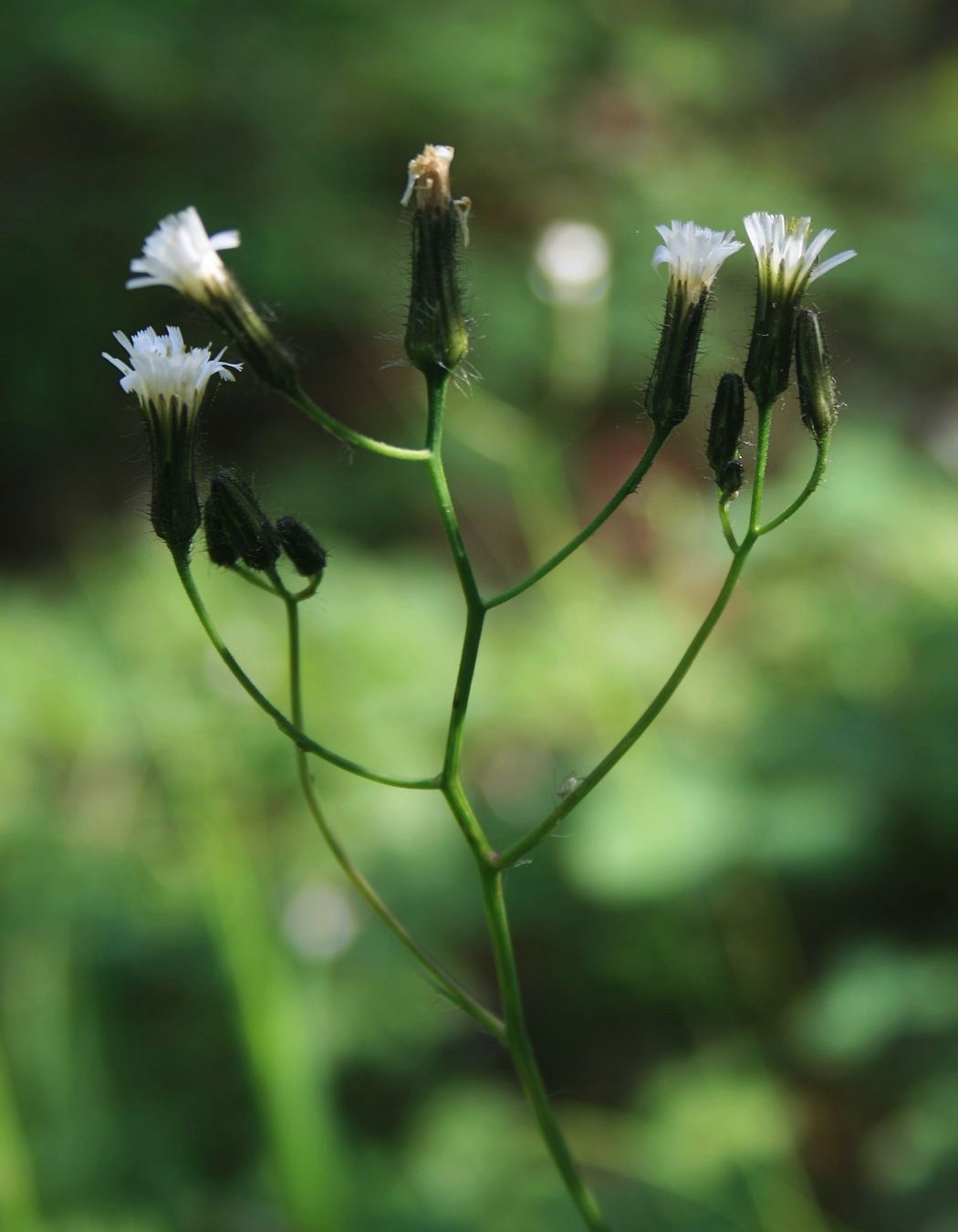 Hieracium albiflorum, Korbblütler (Asteraceae) - Kanada/Canada: British Columbia, Sawmill Road ca. 35 km NW Kamloops, ca. 1400-1500 m